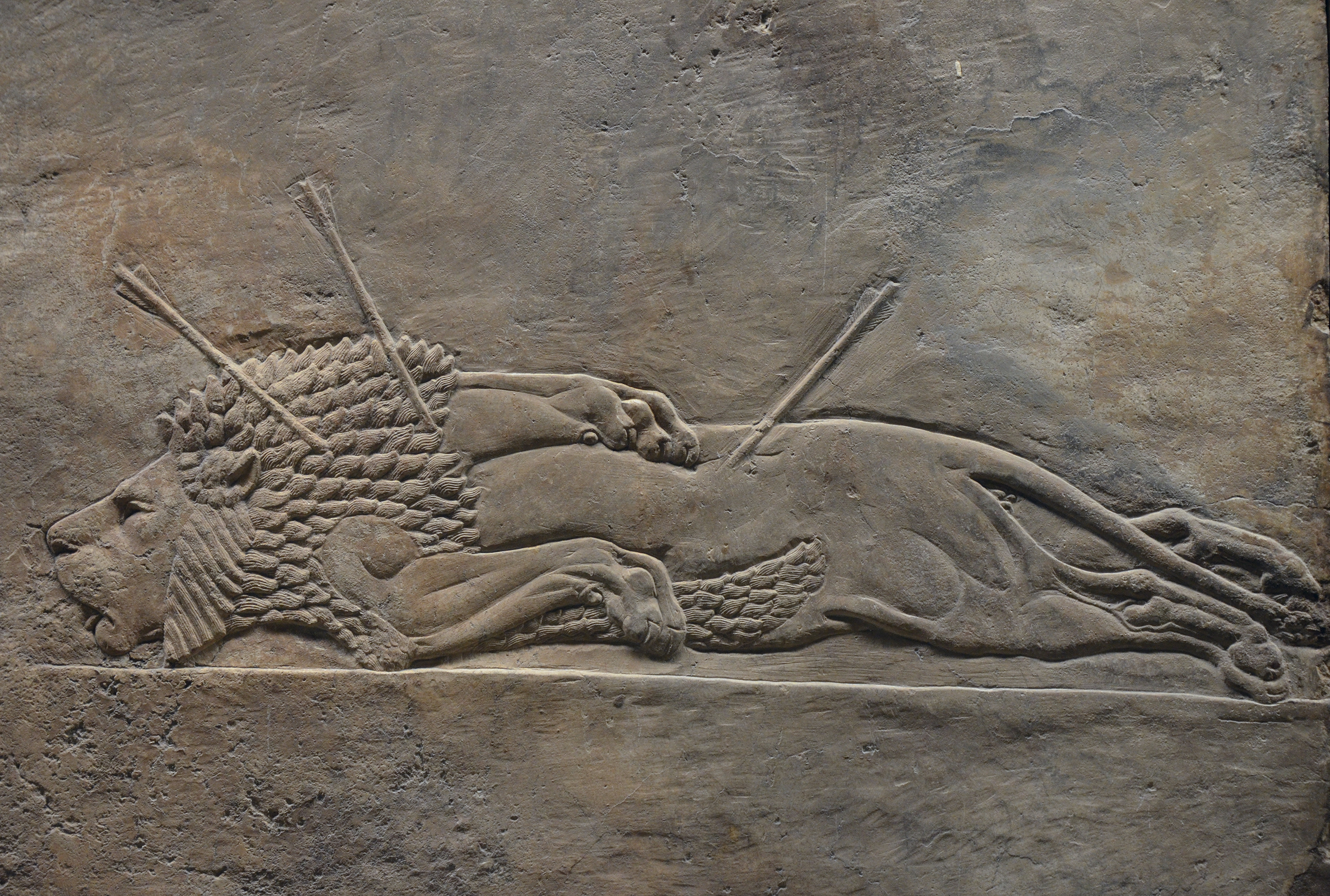 Sculpted reliefs depicting Ashurbanipal, the last great Assyrian king, hunting lions, gypsum hall relief from the North Palace of Nineveh (Irak), c. 645-635 BC, British Museum